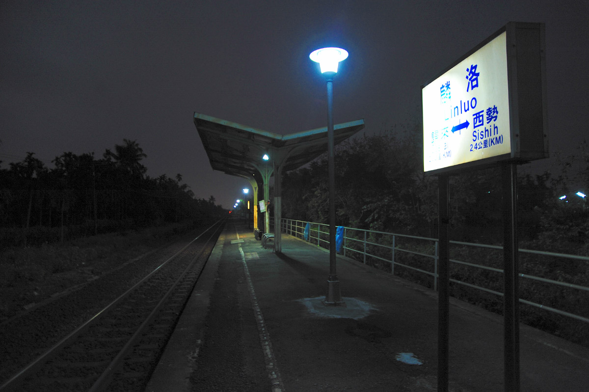 PingTung Station is an unmanned small station of TRA PingTung line.